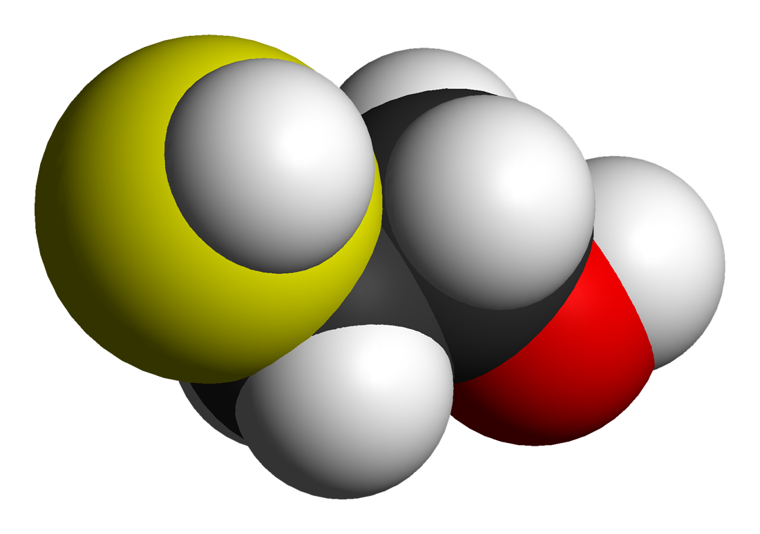 Space-filling model of the chemical compound 2-mercaptoethanol